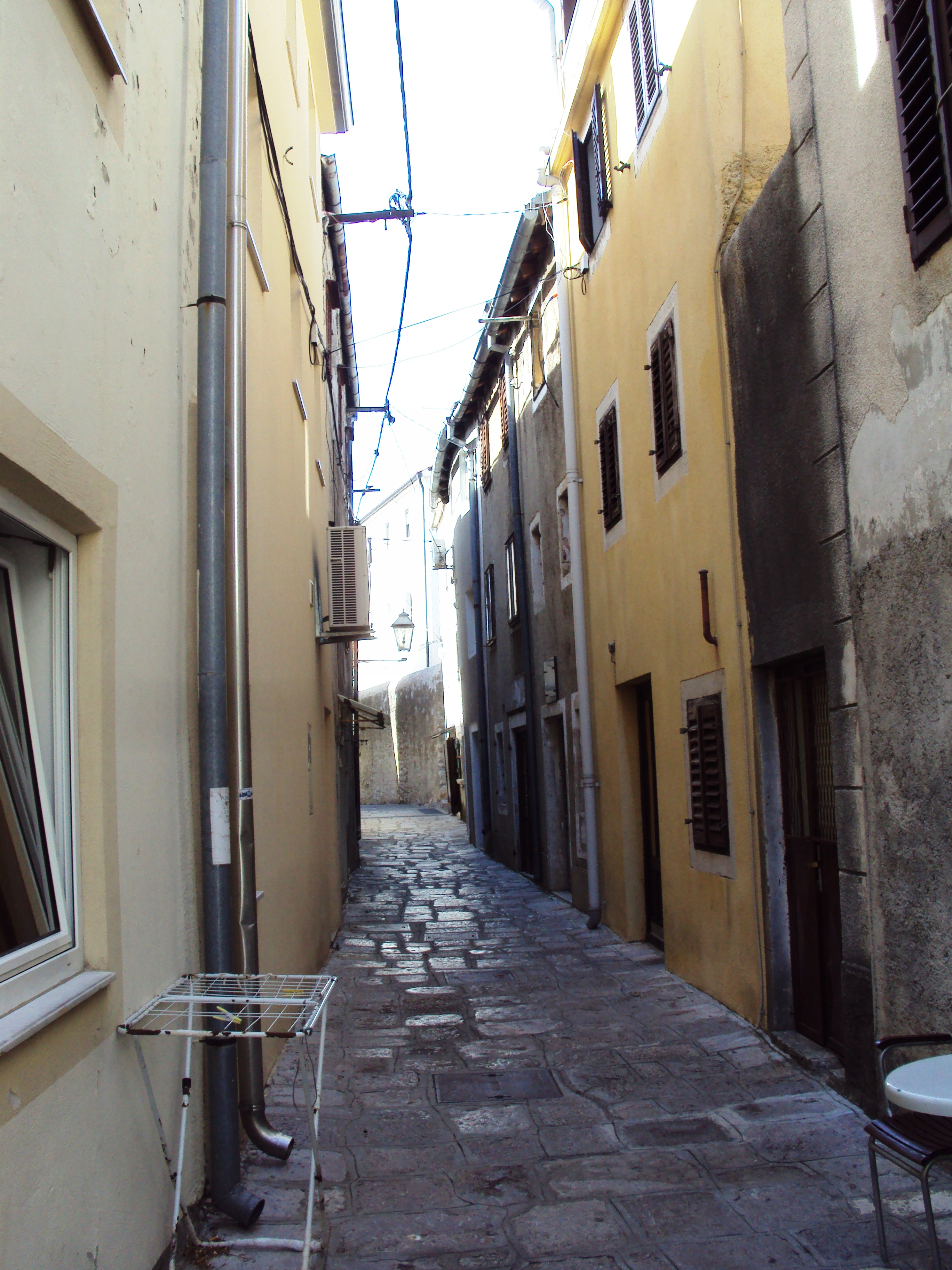 Street in town of Karlobag, Croatia